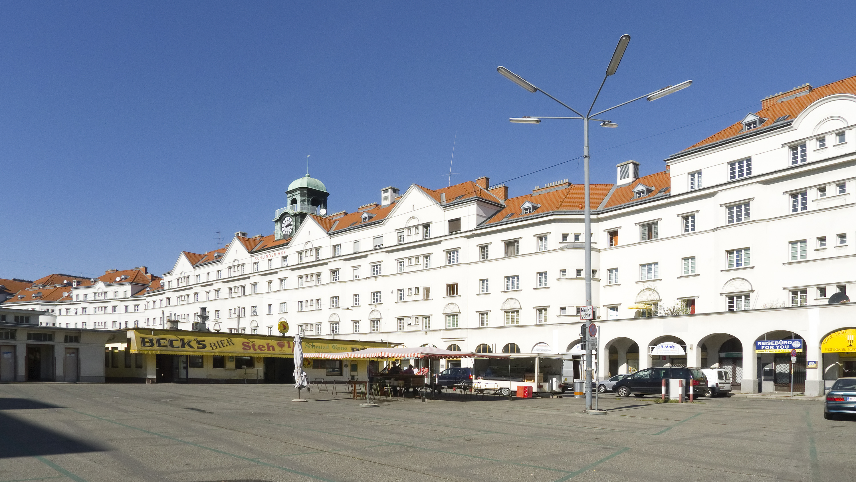 Residential building Schlinger-Hof in Vienna 21